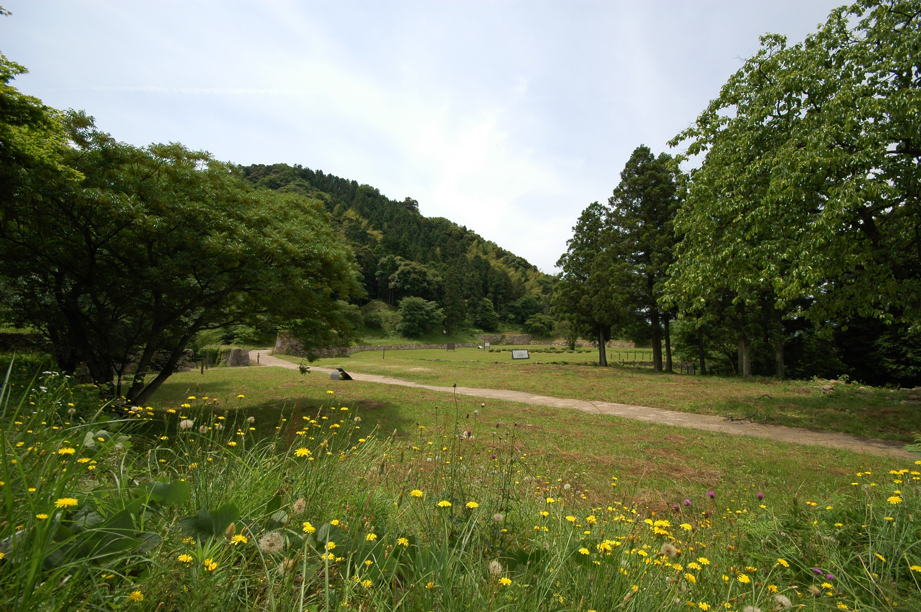 remains of Sanchu-goten